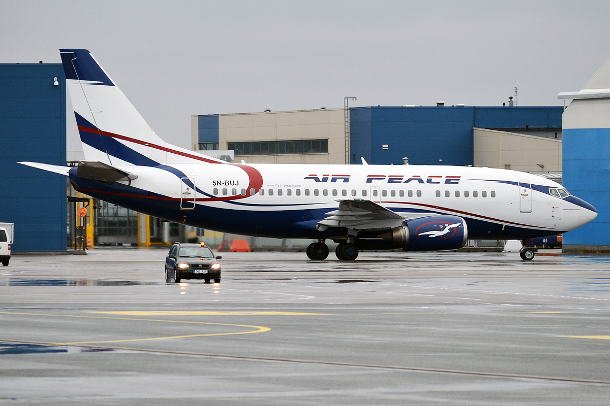 Air Peace, 5N-BUJ, Boeing 737-5L9